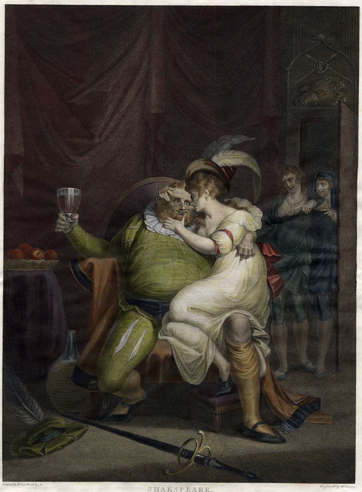 Henry Fuseli, "Henry_IV_part_2_act_II_scene_4" for Boydell Shakespeare Gallery